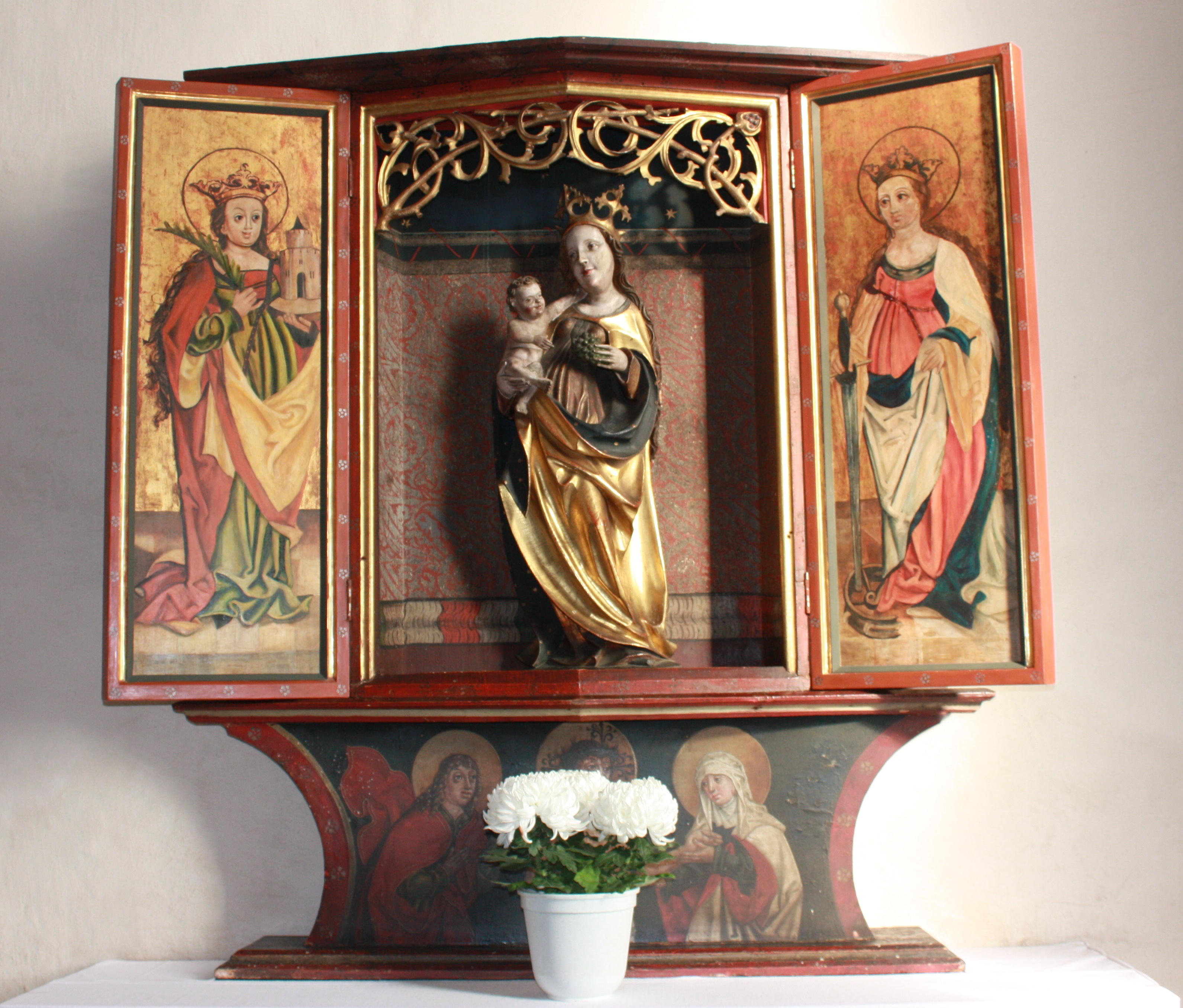 Parish church in the city Hermagor - altar